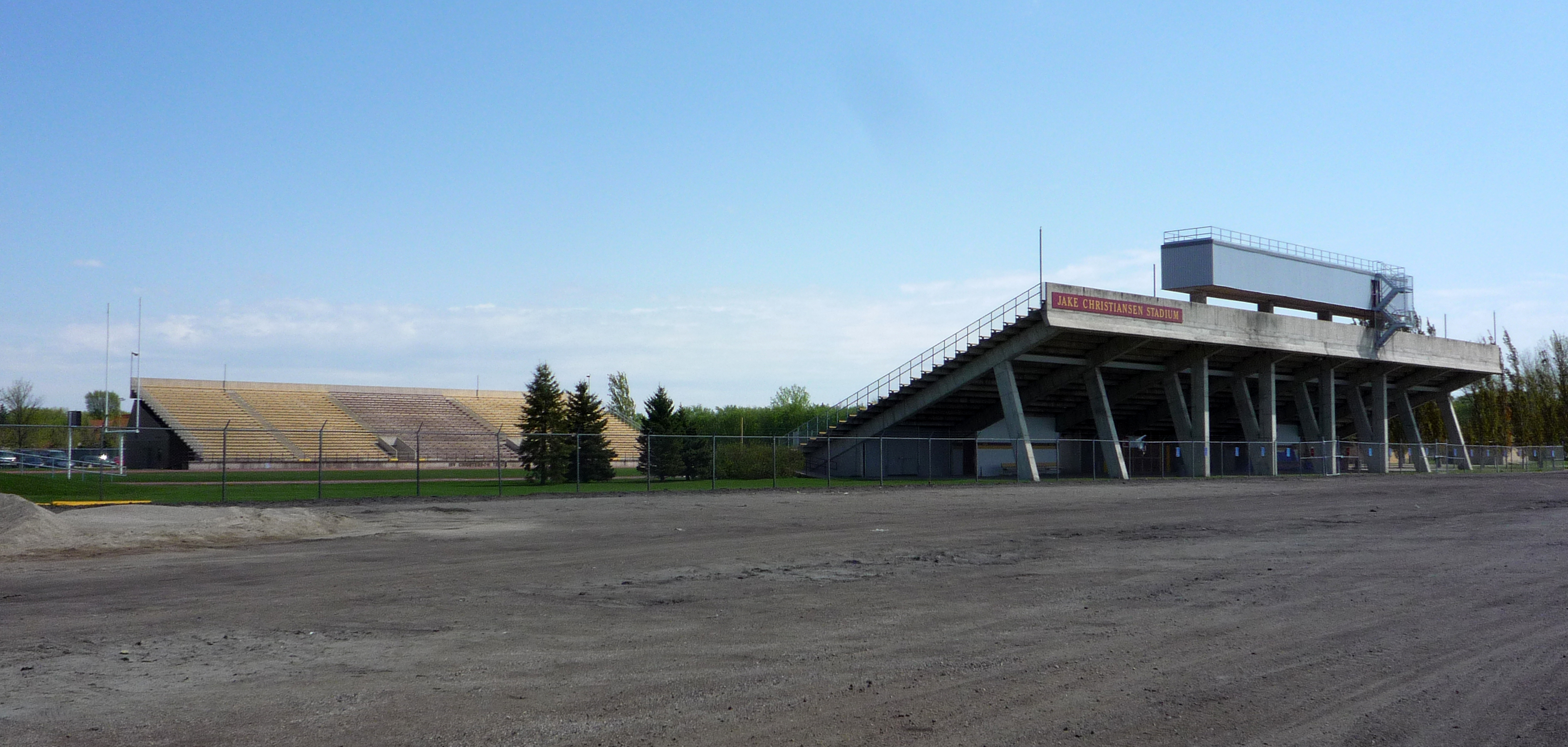 Jake Christiansen Stadium, Concordia College (Moorhead State) campus, Moorhead, Minnesota, USA.